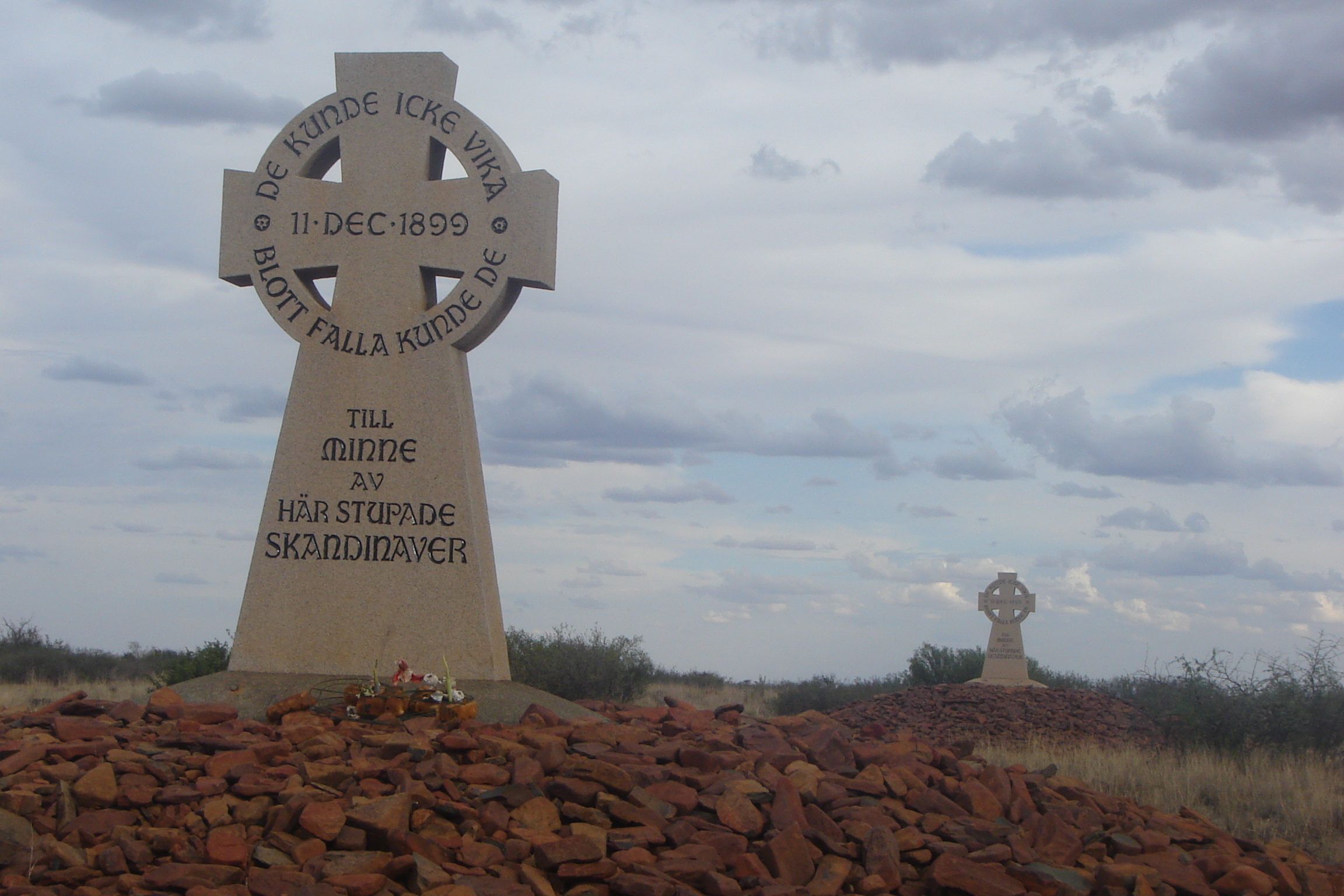 This is a photo of the Scandinavian memorial in honour of those of the Scandinavian volunteer corps who gallantly fought the British Imperial forces at the Battle of Magersfontein near Kimberley. The text is in (old ?) Swedish language and translates like this: De kunde icke vika: They could not retreat Blott falla kunde de: They could only fall Til minne om här stupade skandinaver: In memory of Scandinavians killed here. --Sir48 18:17, 18 January 2006 (UTC) It's actually a paraphrase of the 19th century poem Kung Karl, den unge hjälte (Han kunde icke vika, Blott falla kunde han, "He couldn't yield/retreat, he could but fall"). Diupwijk (talk) 22:20, 25 November 2011 (UTC)